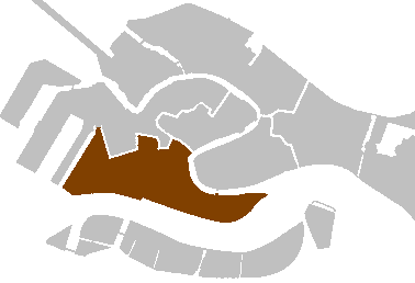 Dorsoduro District — the eastern section of the Dorsoduro sestiere of Venice.